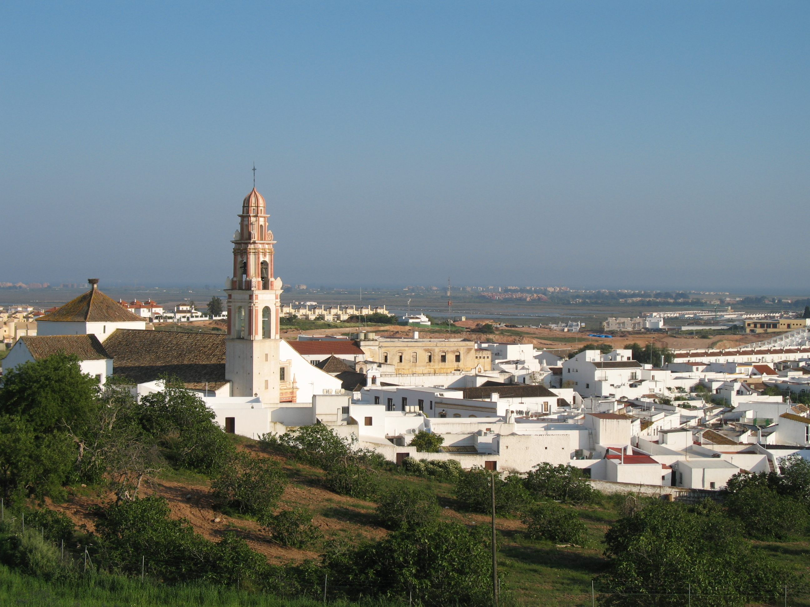 Ayamonte (Province of Huelva, Spain): General view of the town and the San Salvador church